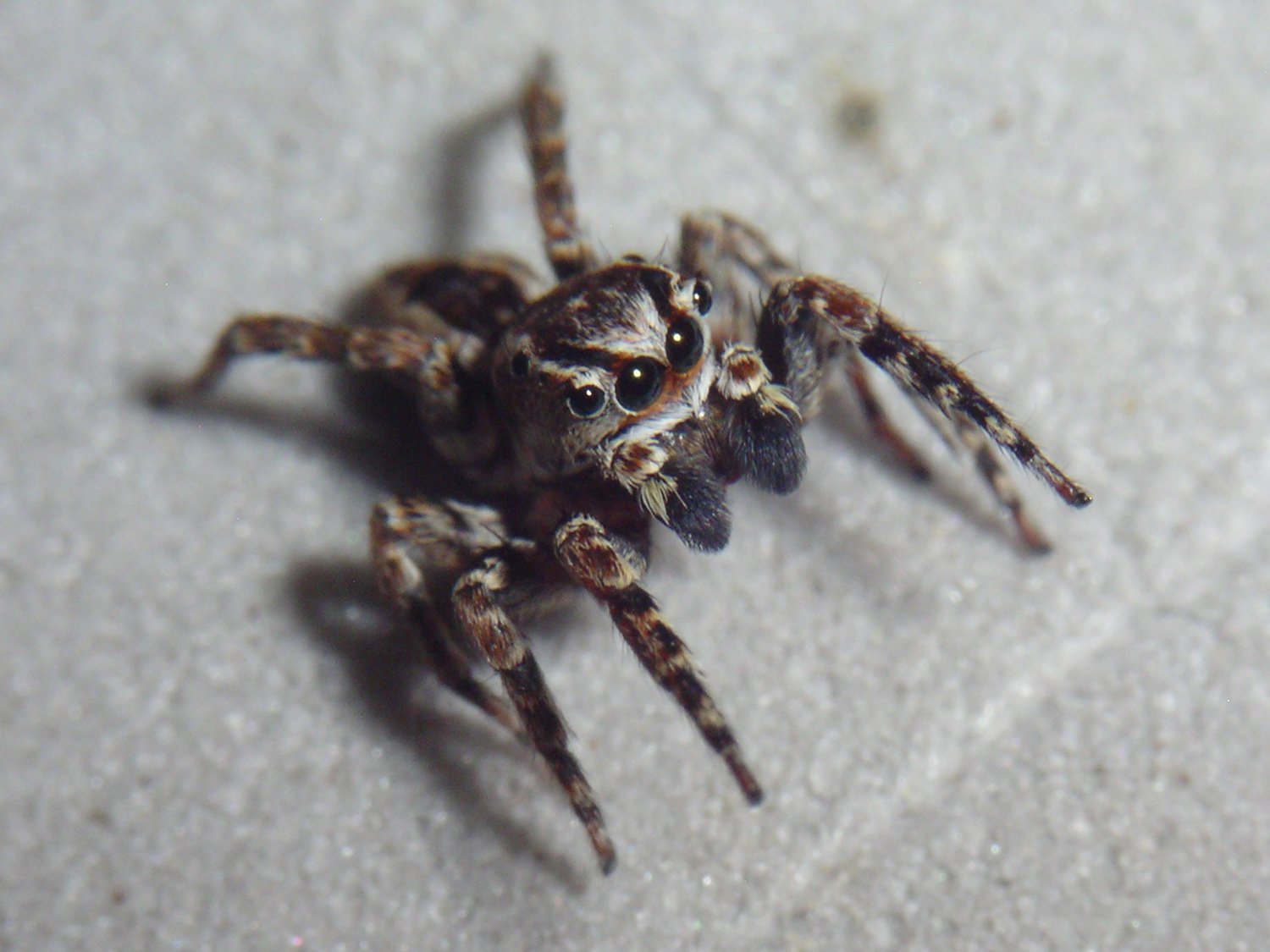 Mexigonus male (JAL14-8964) — MEXICO: JALISCO: Estación de Biología Chamela, Arroyo Zarco 19.496 °N 105.039 °W